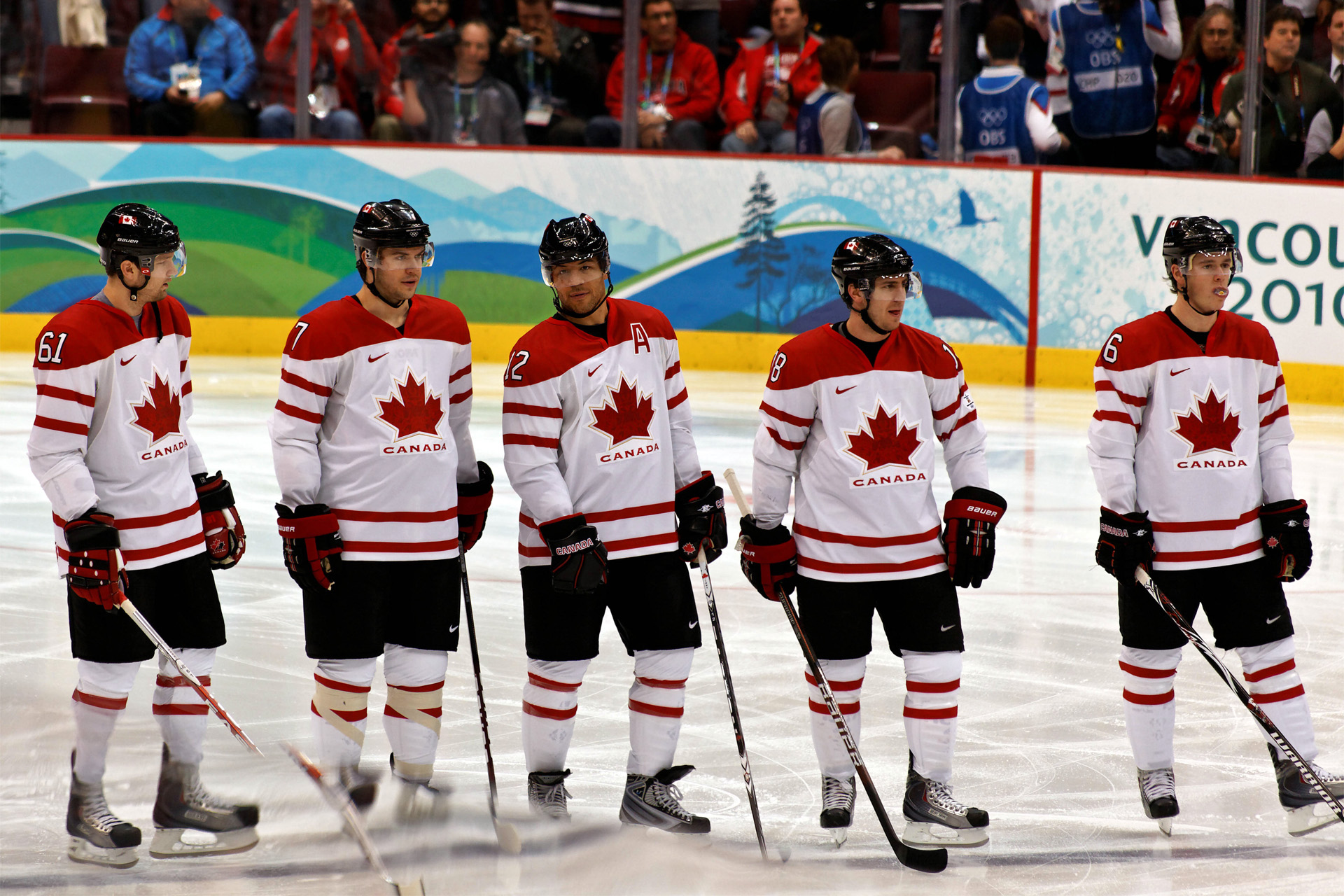 Canada players (from left): Rick Nash, Brent Seabrook, Jarome Iginla, Mike Richards, and Jonathan Toews line up prior to the start of the gold medal game against the United States during the 2010 Winter Olympics